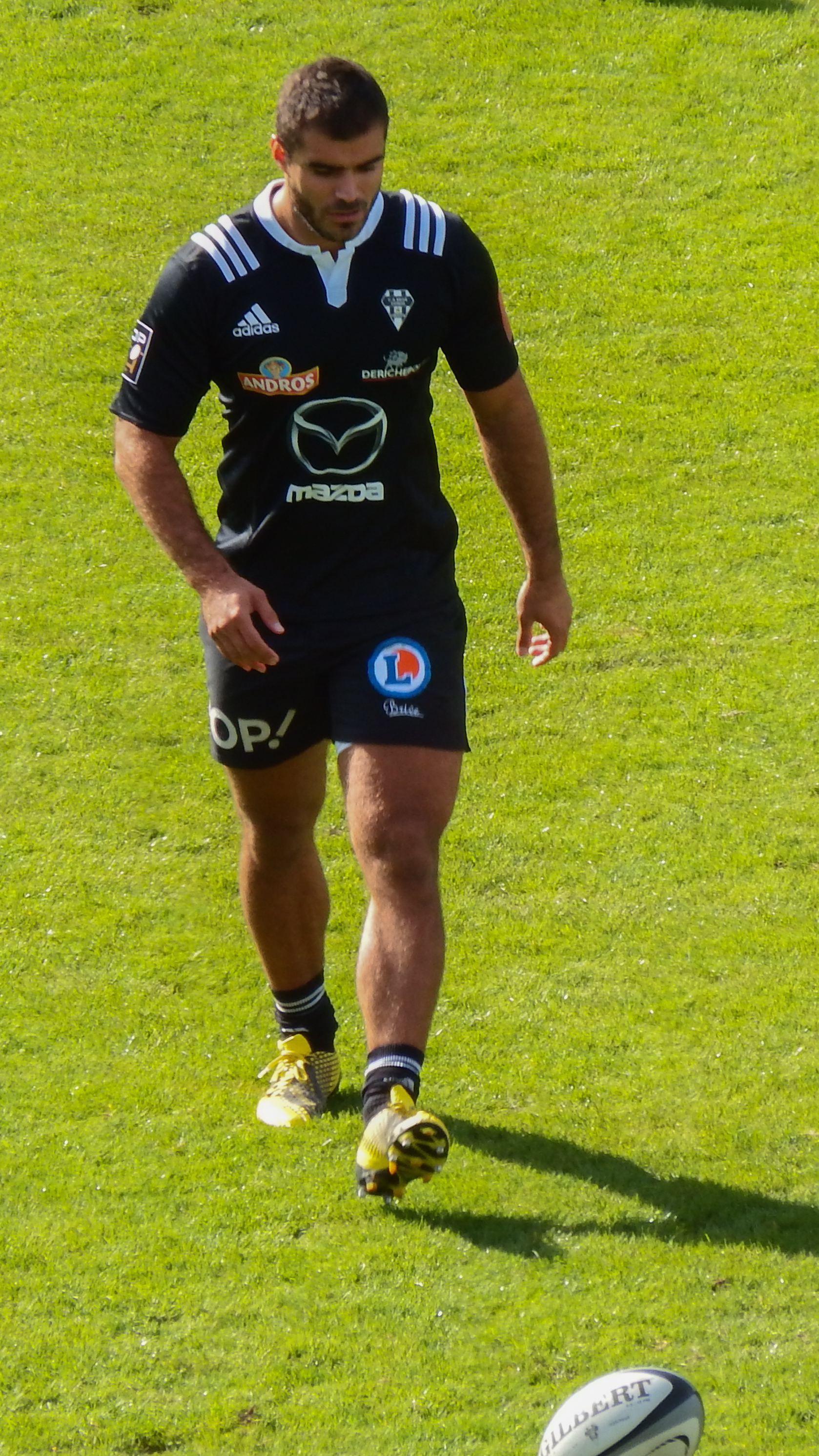 2015–16 Top 14 season — 17 October 2015, Stade Amédée-Domenech. Match between: CA Brive — RC Toulonnais